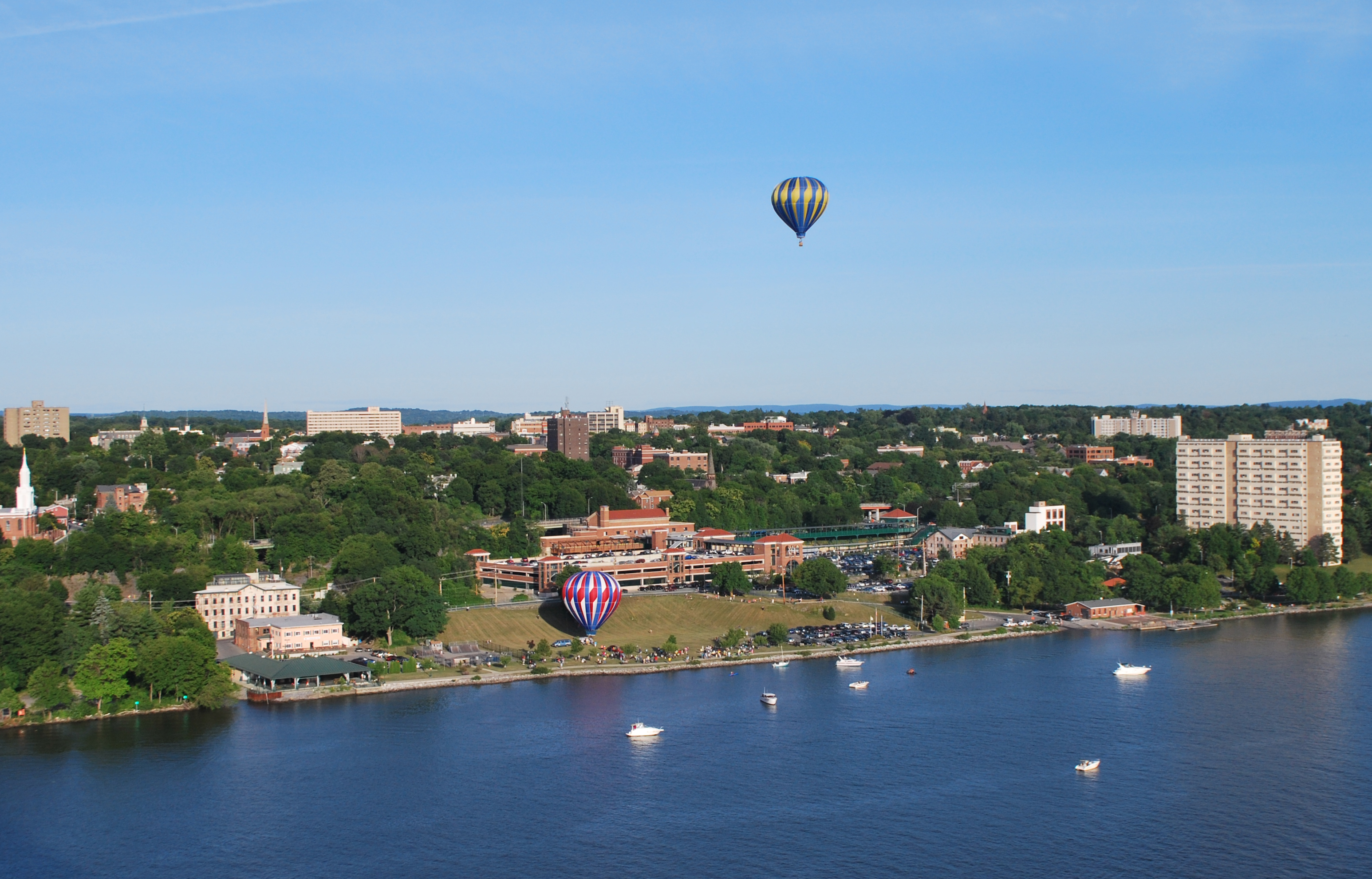 Crop of the original